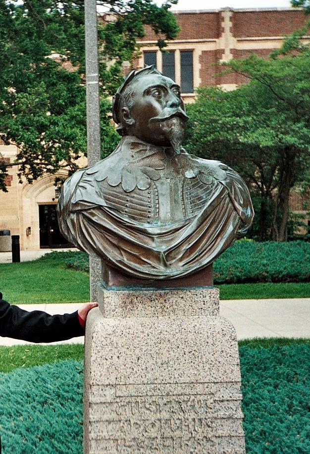 Bust of King Gustav II Adolph of Sweden produced by Herman Bergman in 1932Place: Gustavus Adolphus Campus, St. Peter, Minnesota